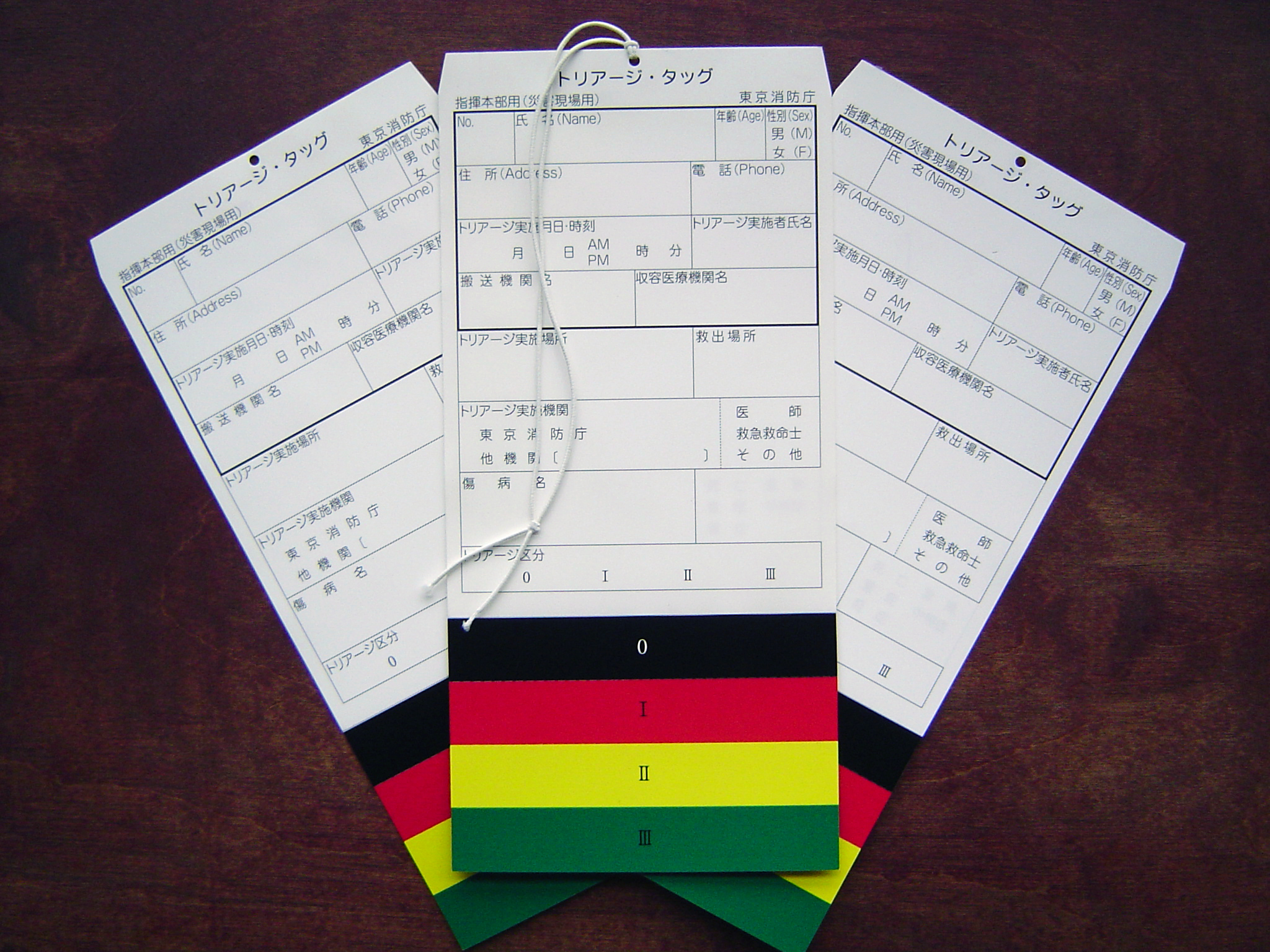 Triage tags (Tokyo Fire Department)